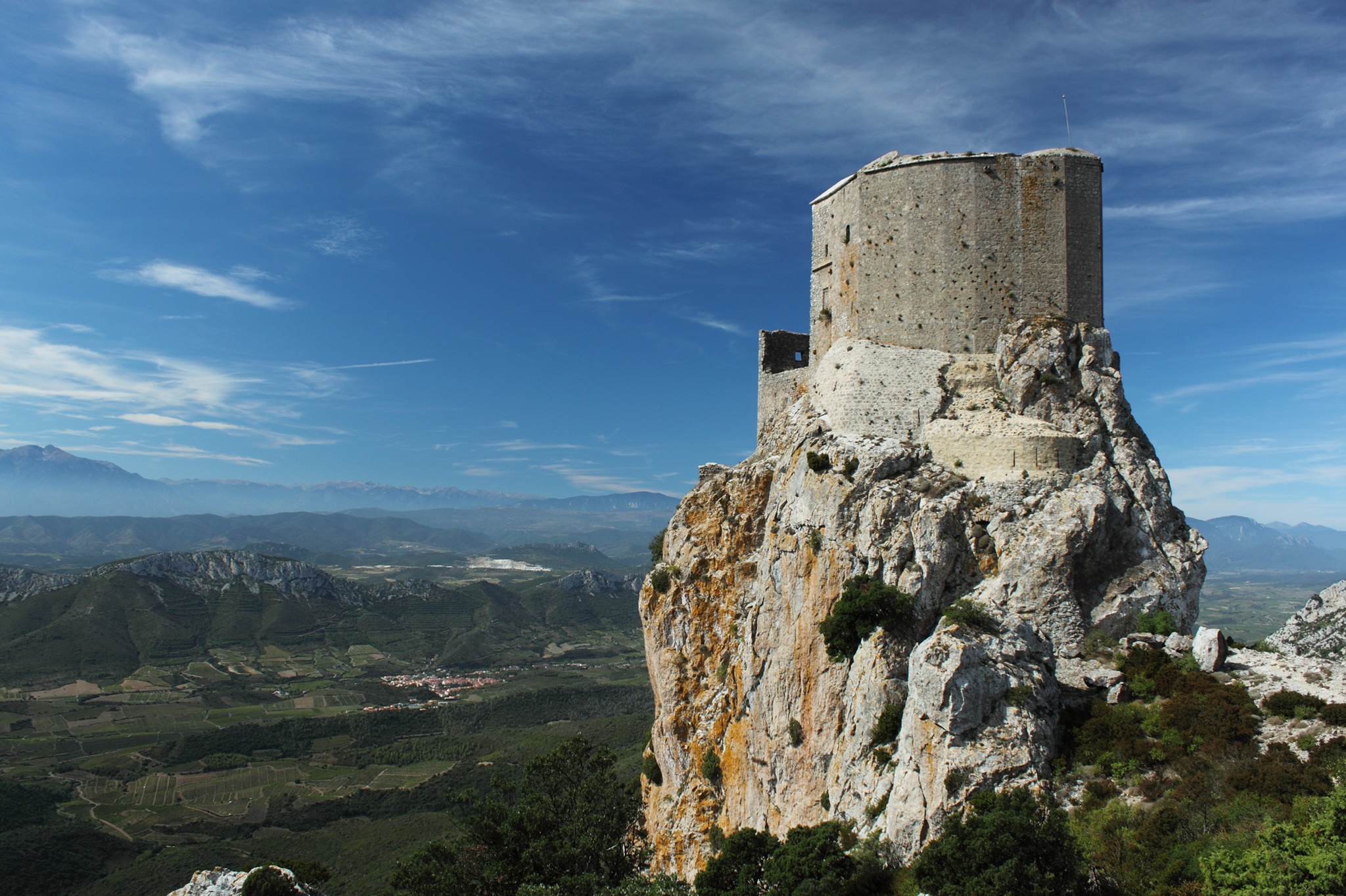 East view of the Château de Quéribus, Aude, France. .